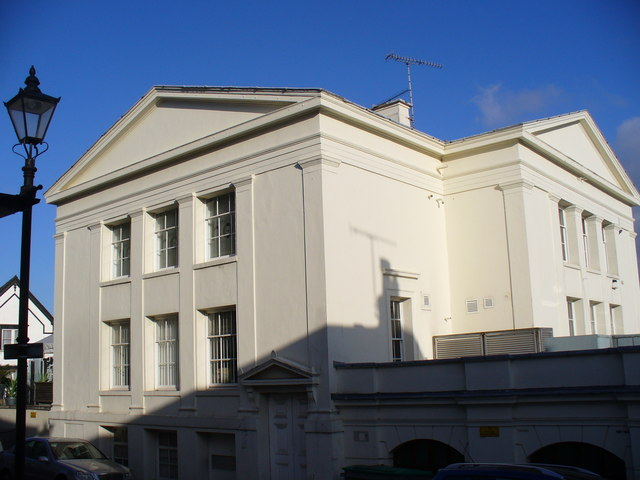 Corn Exchange, Bishop's Stortford Large neo-Grecian style building (1828) in the centre of Bishop's Stortford which once was surrounded by a very large malting industry.